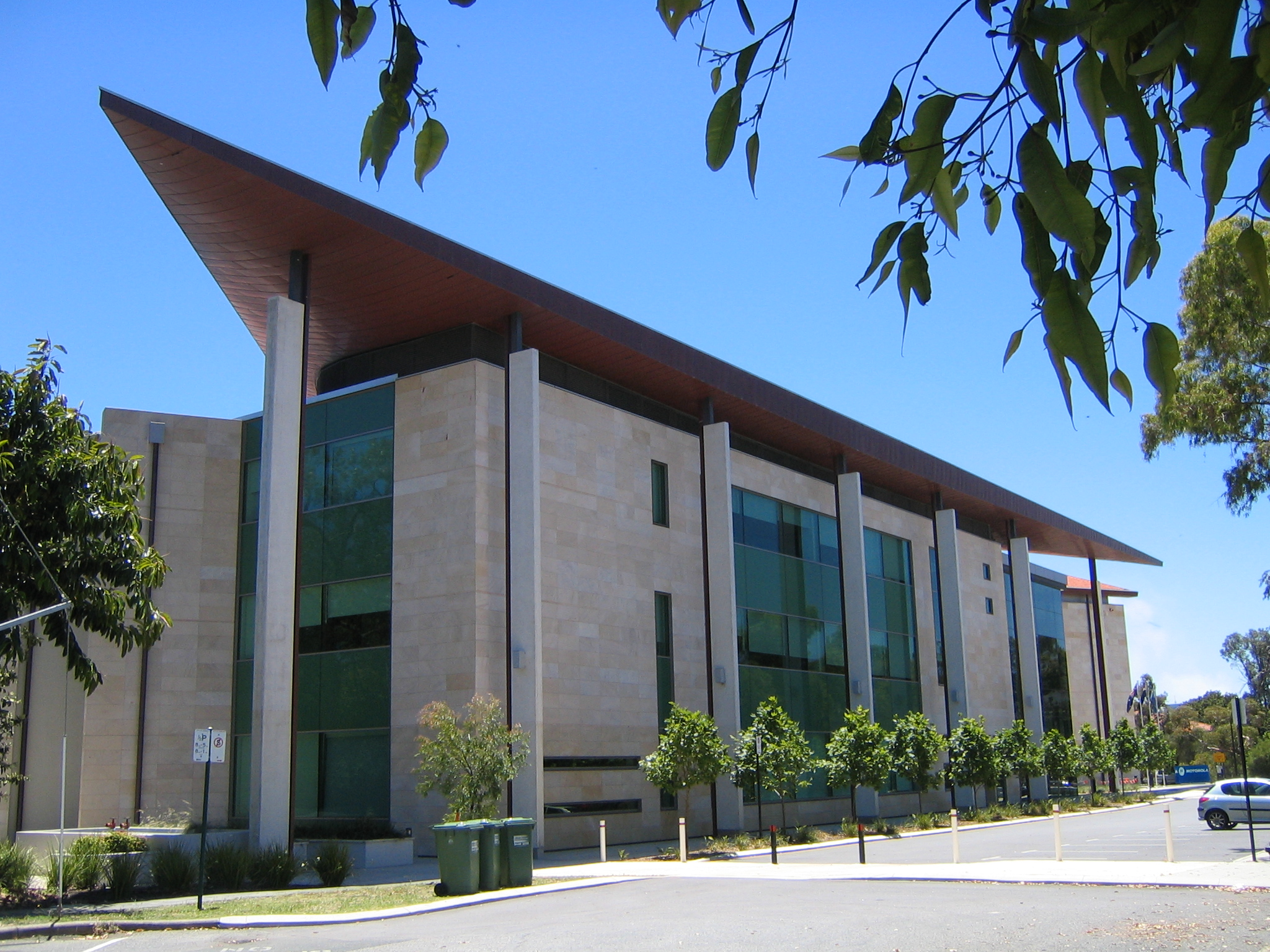 Motorola Software Centre, University of Western Australia, Crawley, Western Australia.